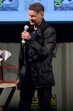 Andrew Niccol Comes Onstage For In Time Panel